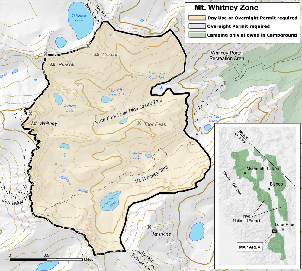 Map of the Mt. Whitney Zone in the Inyo National Foerst